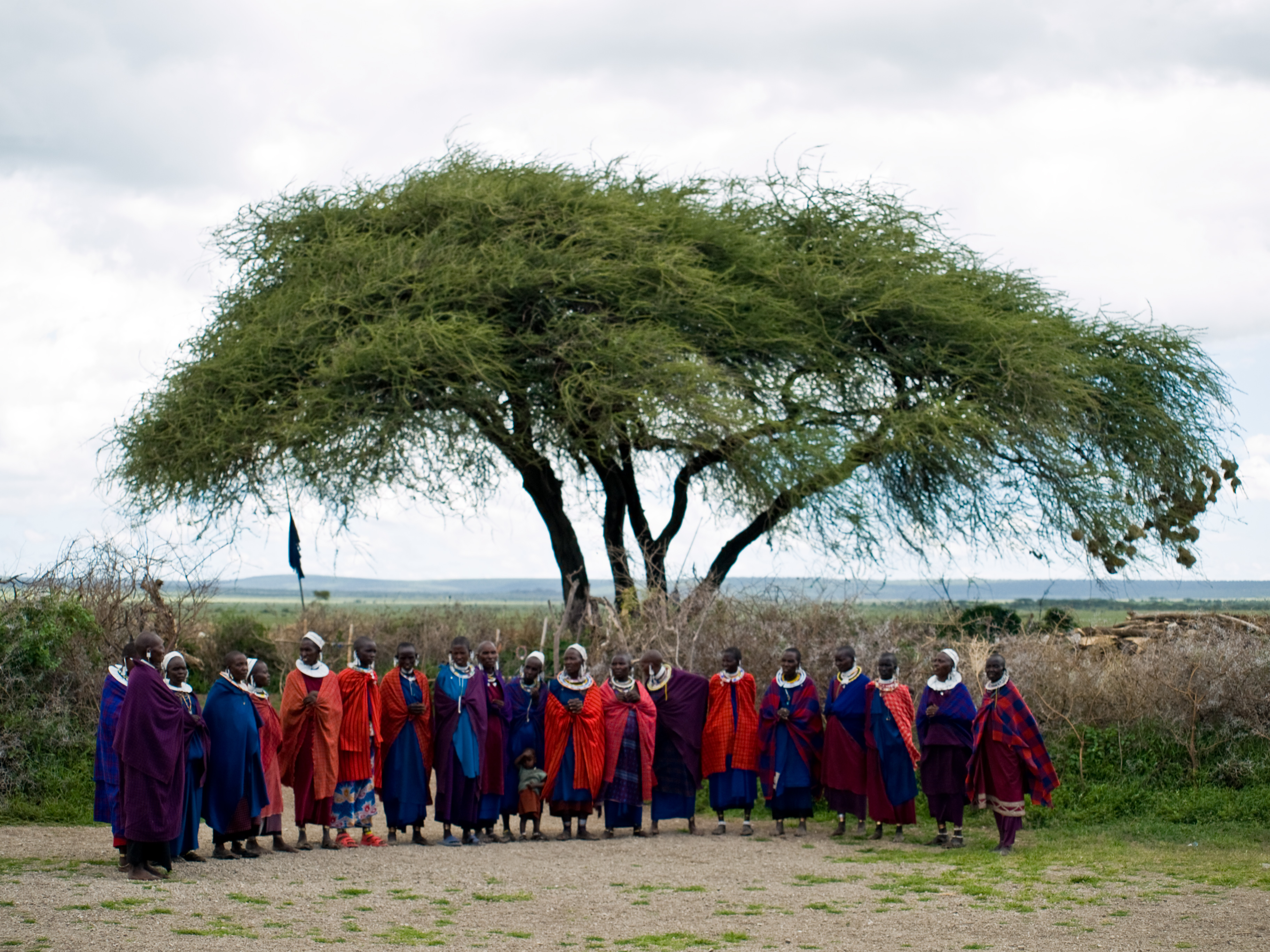 Maasai tribe welcoming the tourists to their village in the Serengeti National Park, Tanzania